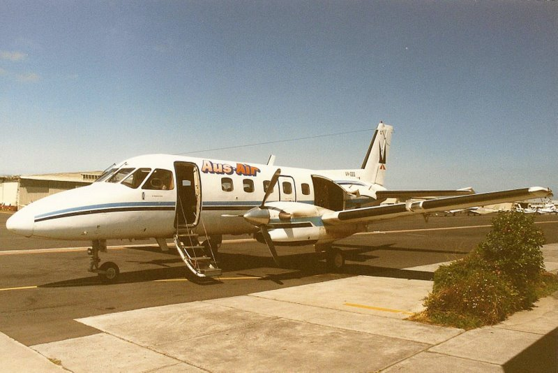 An Embraer EMB 110 Bandeirante of Australian regional airline Aus-Air. Image scanned from a 6"x4" photograph of VH-OZG taken by YSSYguy on 31 December 1998 at Moorabbin Airport in Melbourne, Victoria.